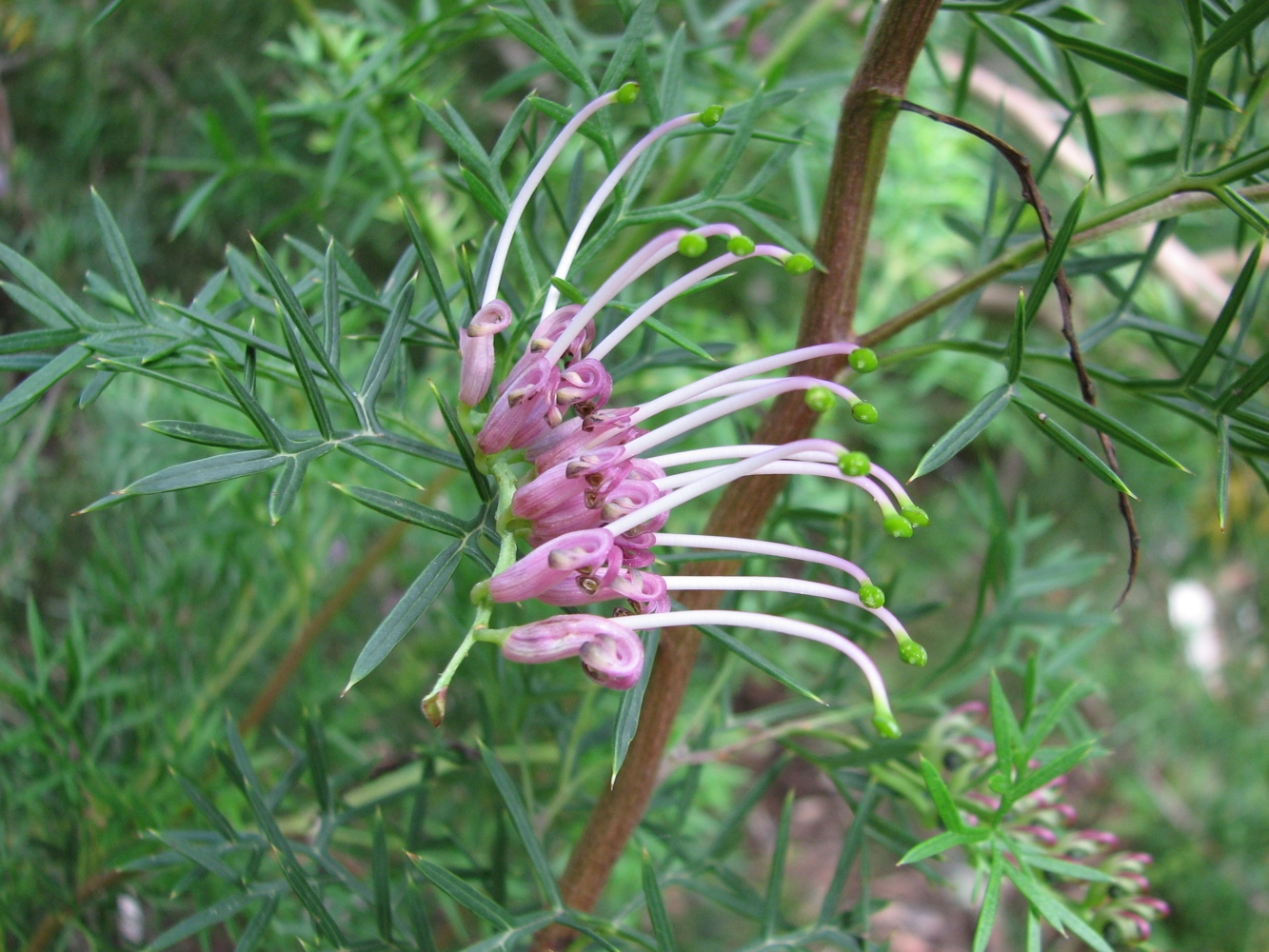 Grevillea rivularis (Proteaceae Bed), Royal Botanic Gardens Melbourne, Australia